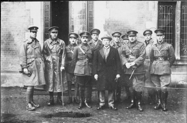 The Honourable W M (Billy) Hughes, Prime Minister of Australia, with a group of unidentified Australian officers, during his visit to the 4th Brigade, Australian Field Artillery at Thuin in Belgium. The officer second from left is Cecil Arthur Lieutenant Colonel Callaghan DSO CO.